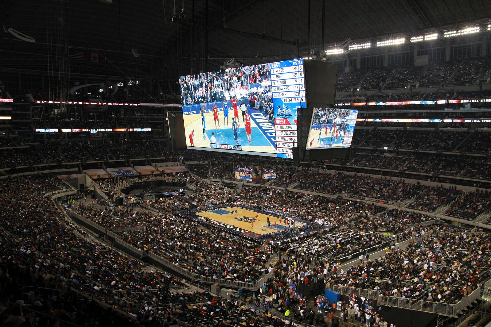 NBA All-Star Game 2010 at Cowboys Stadium in Arlington, TX.